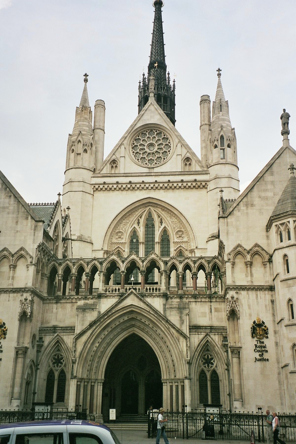 London, Royal Courts of Justice